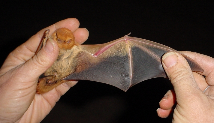 When roosting, the desert red bat (Lasiurus blossevillii) hangs from one leg from tree branches. This provides excellent camouflage -- it resembles a dead leaf.